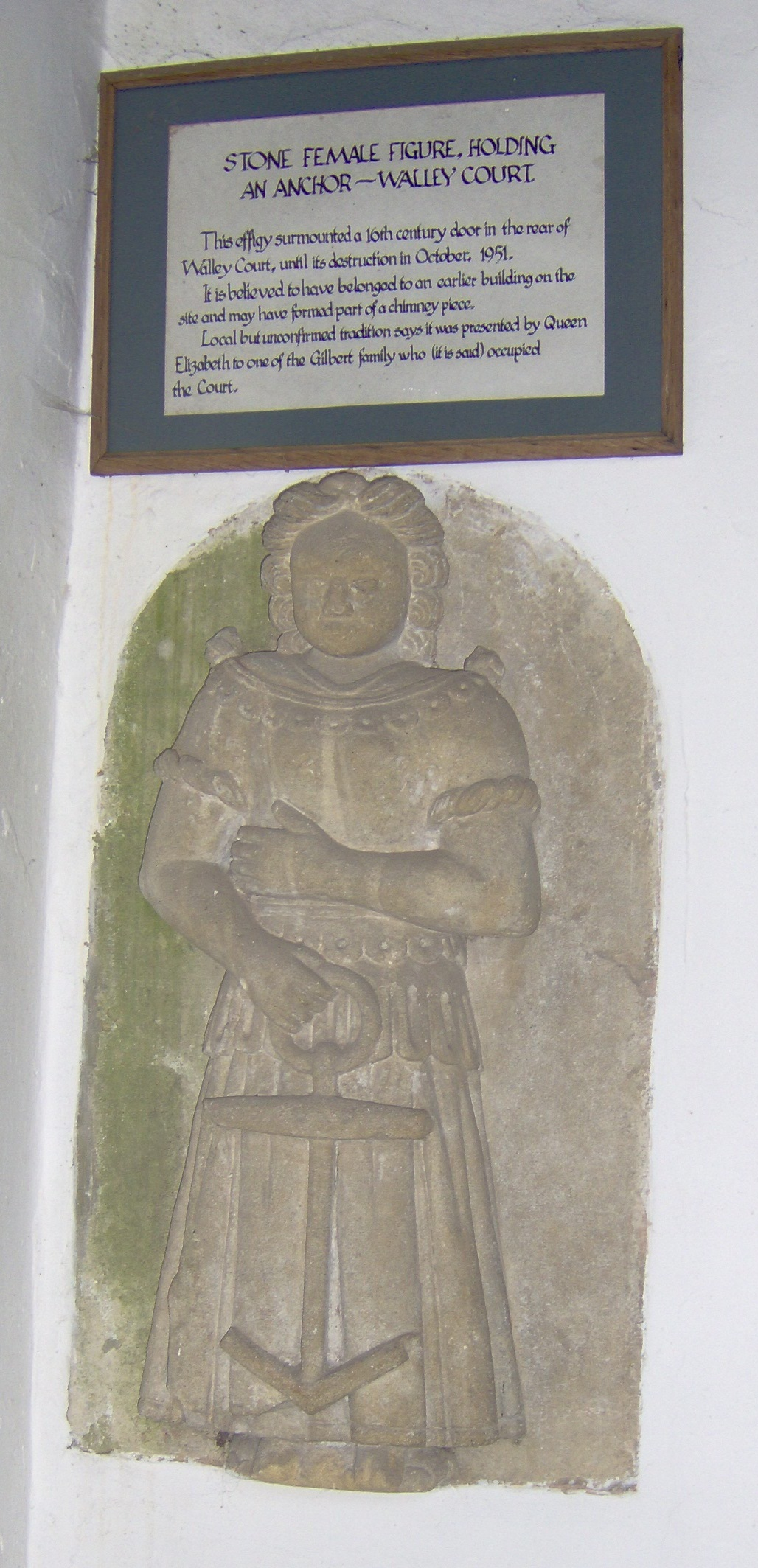 Female stone sculpture holding an anchor in Chew Stoke church